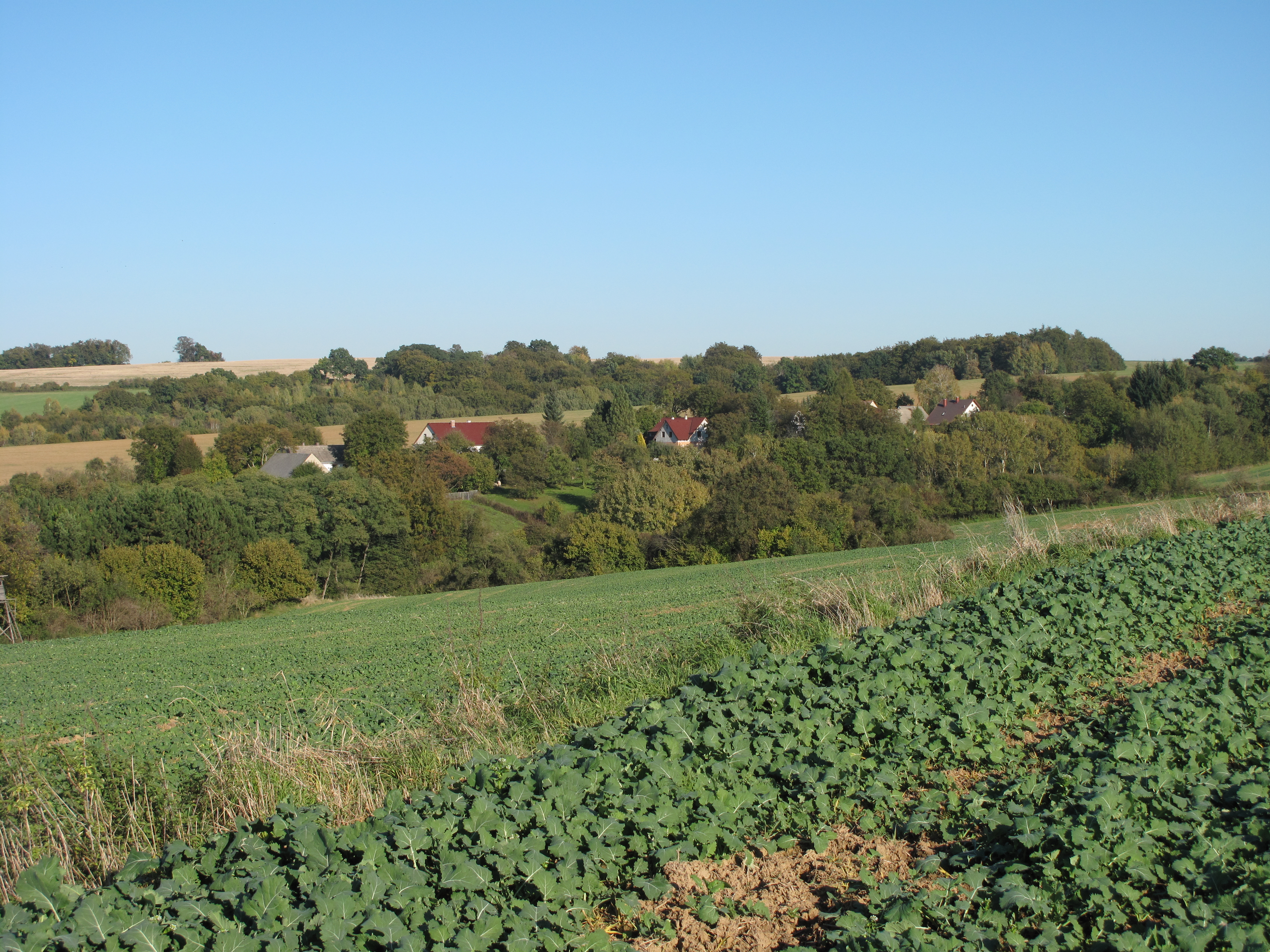 Nové Tupadly village as seen from the south, Mělník District, Czech Republic.